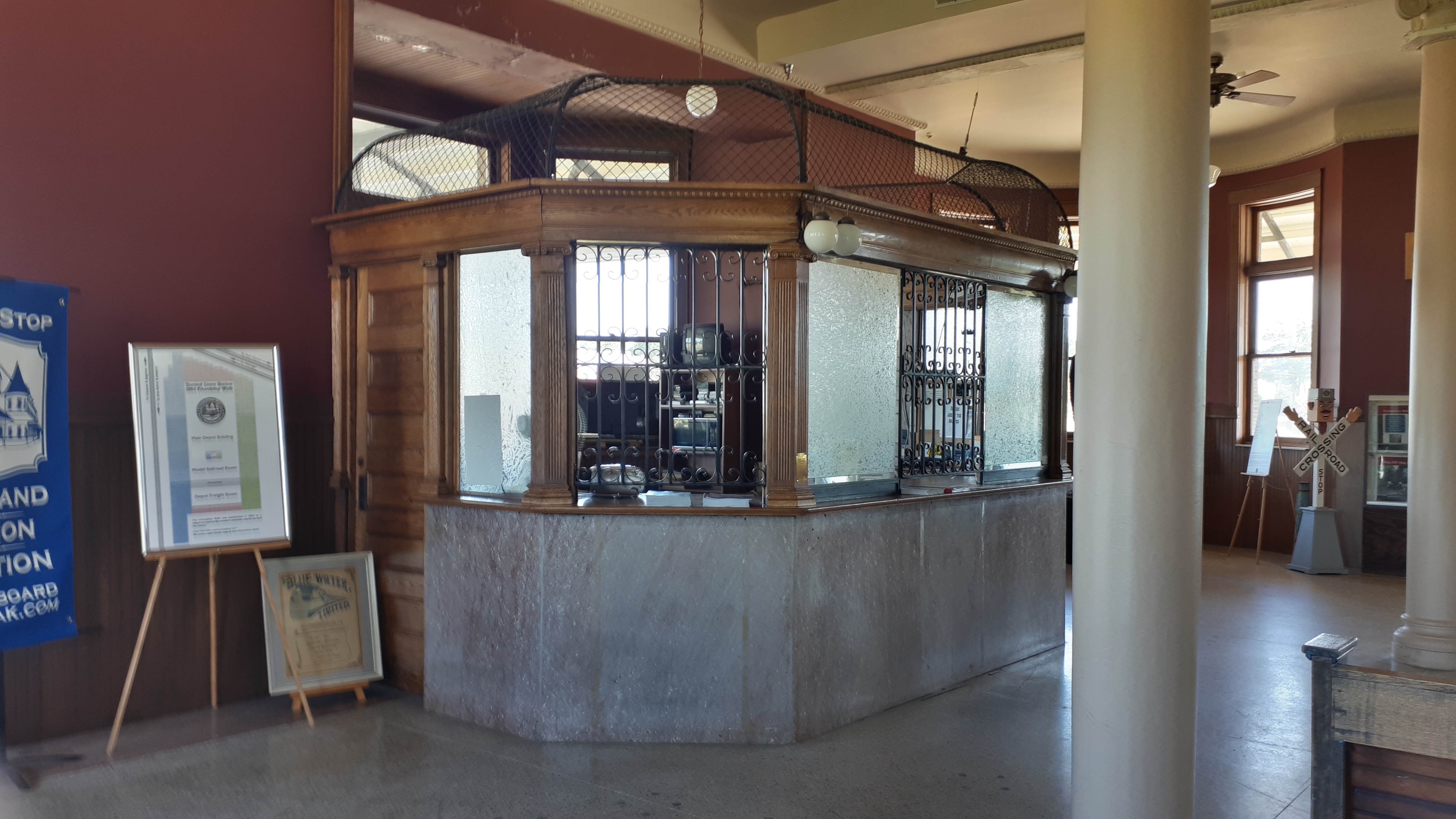 ticket booth at the station, still used to sell Amtrak tickets.